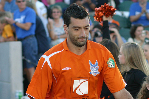 Mauricio Segovia during player introductions before a Carolina RailHawks match.